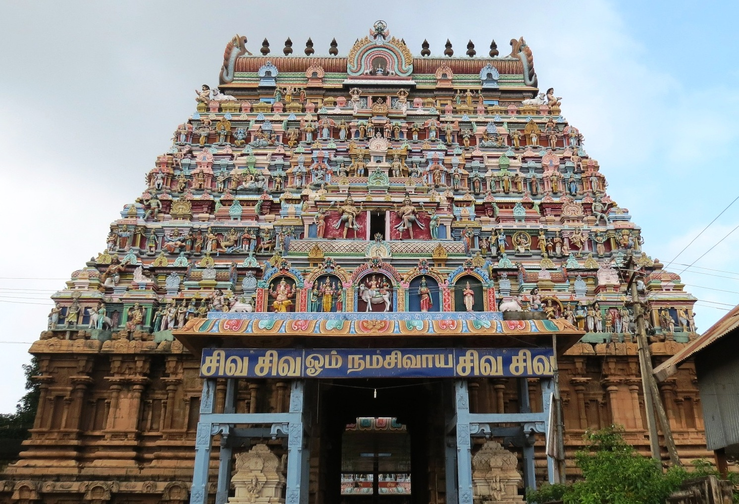 Kampaheswara Temple Gopuram